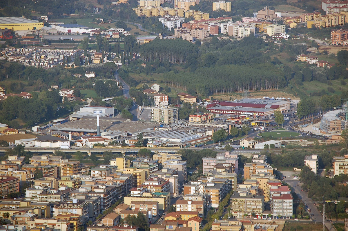 Cassino 2010